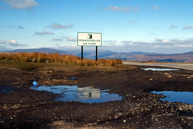 The Tumble. The point at which the B4246 Blaenavon - Abergavenny road over The Tumble passes from the County Borough of Torfaen into Monmouthshire. The road is steep in either direction from here.